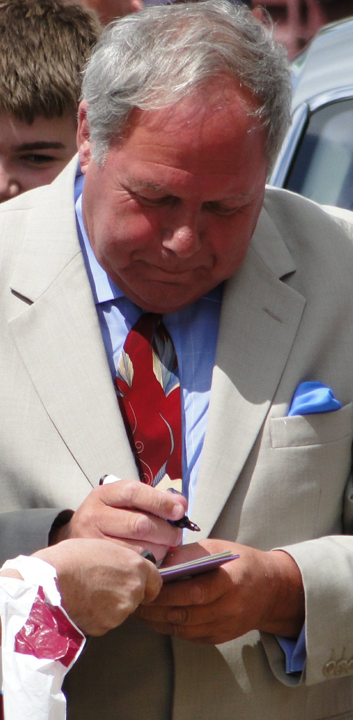 Peterborough United director of football, Barry Fry, at West Ham United's Boleyn Ground before their game against Sunderland